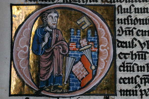 Nahum and the destruction of Nineveh, miniature from the Bible of the Monastery of Santa Maria de Alcobaça, c. 1220s (National Library of Portugal ALC.455, fl.300).